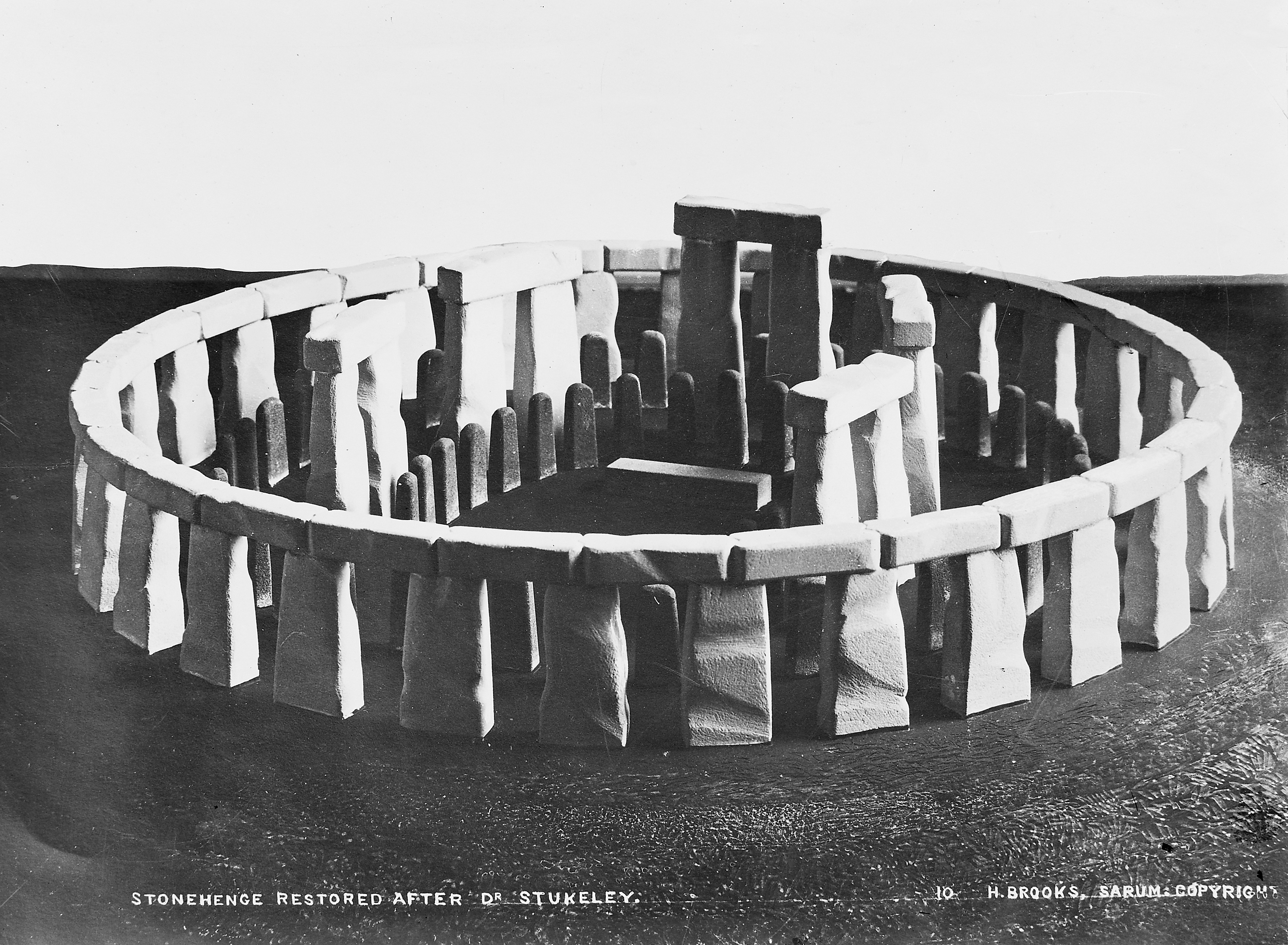 View of Stonehenge, reconstruction. Wellcome Images Keywords: Religion; megaliths; prehistory; Archaeology